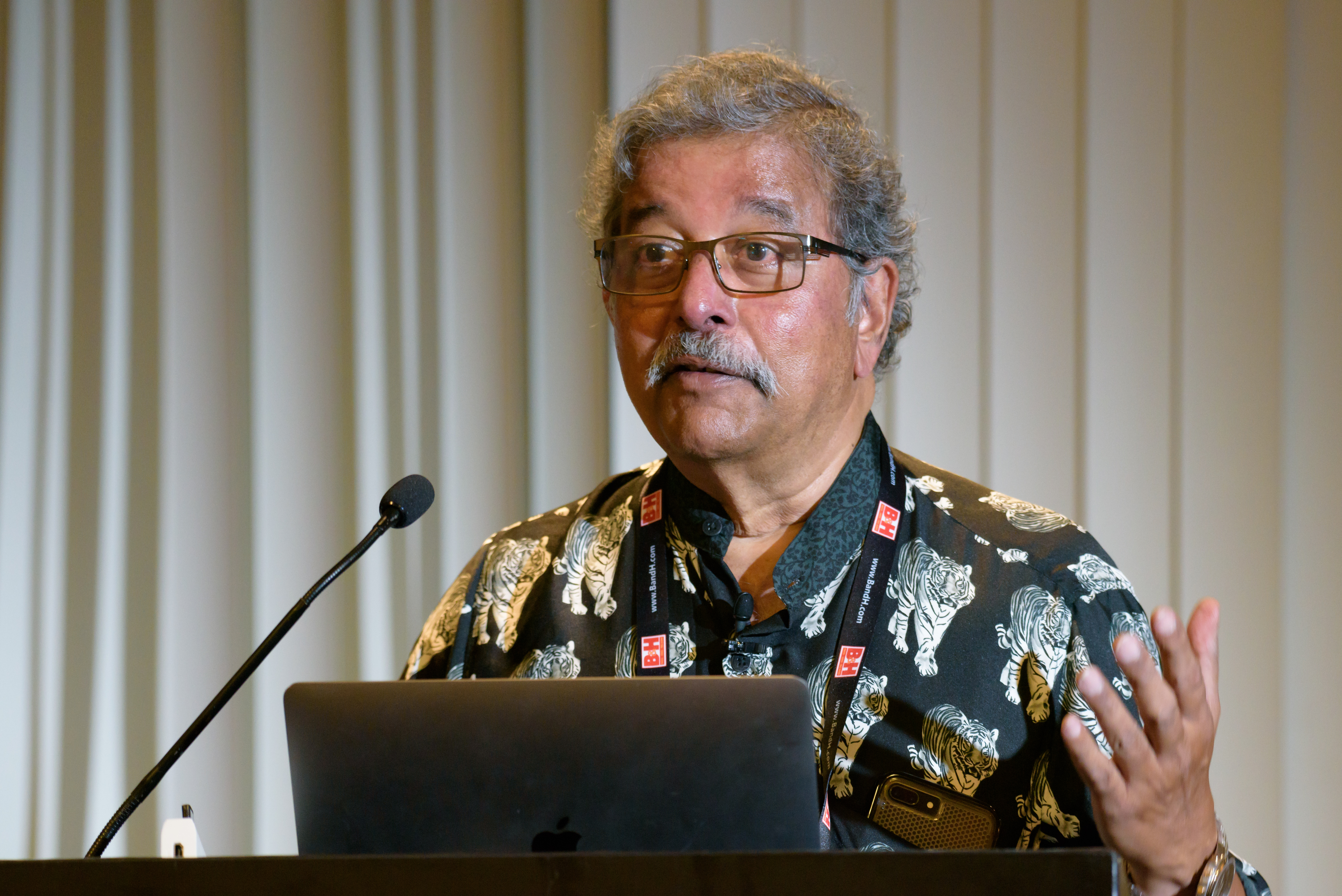 John Isaac delivering his presentation "The Art of Seeing" at OPTIC 2019.